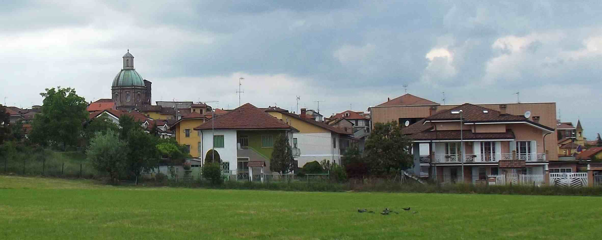 Gassino (TO, Italy): panorama